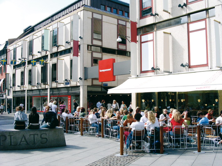 Kompassen, Göteborg